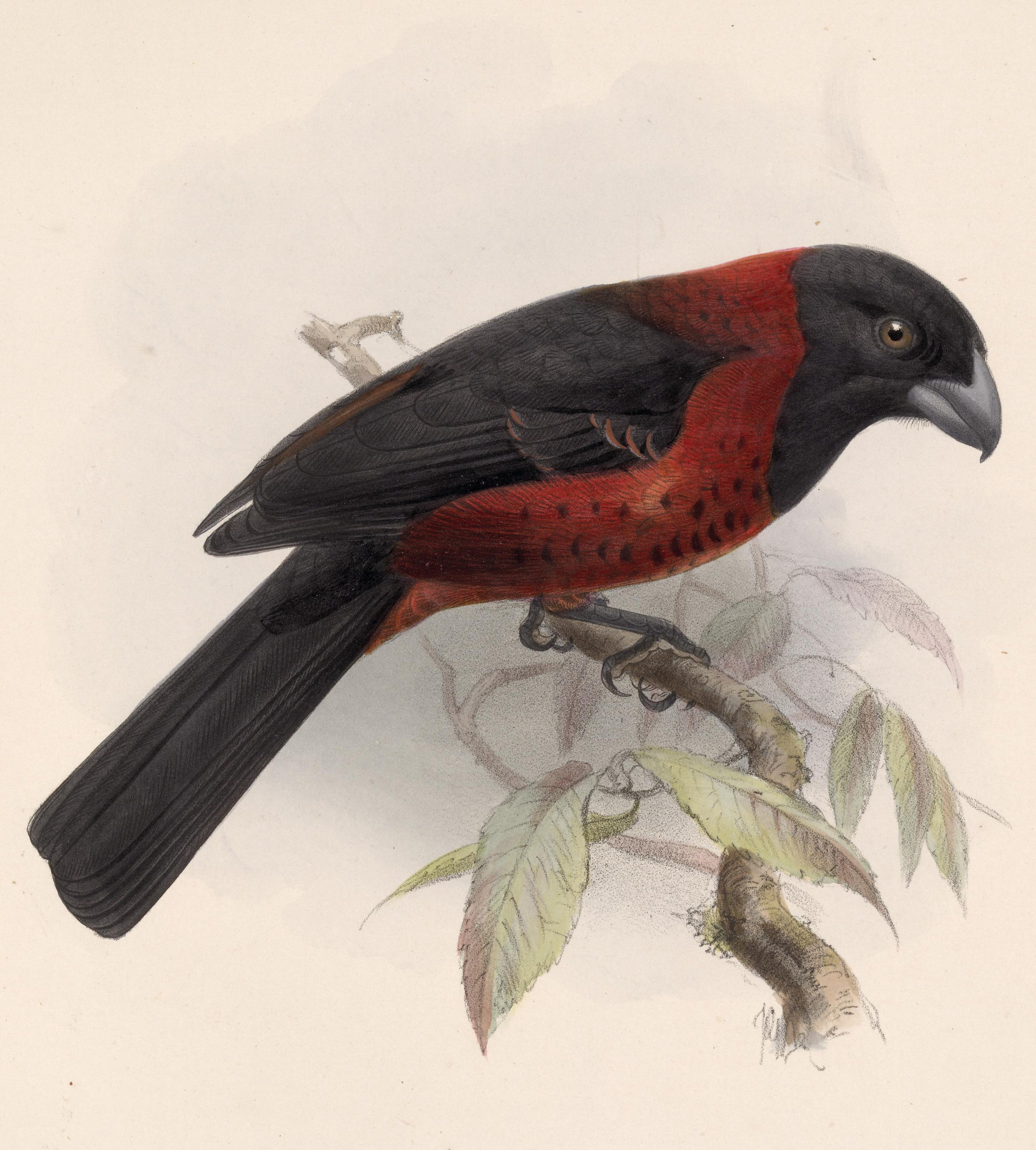 « Pitylus celaeno » = Rhodothraupis celaeno (Crimson-collared Grosbeak)